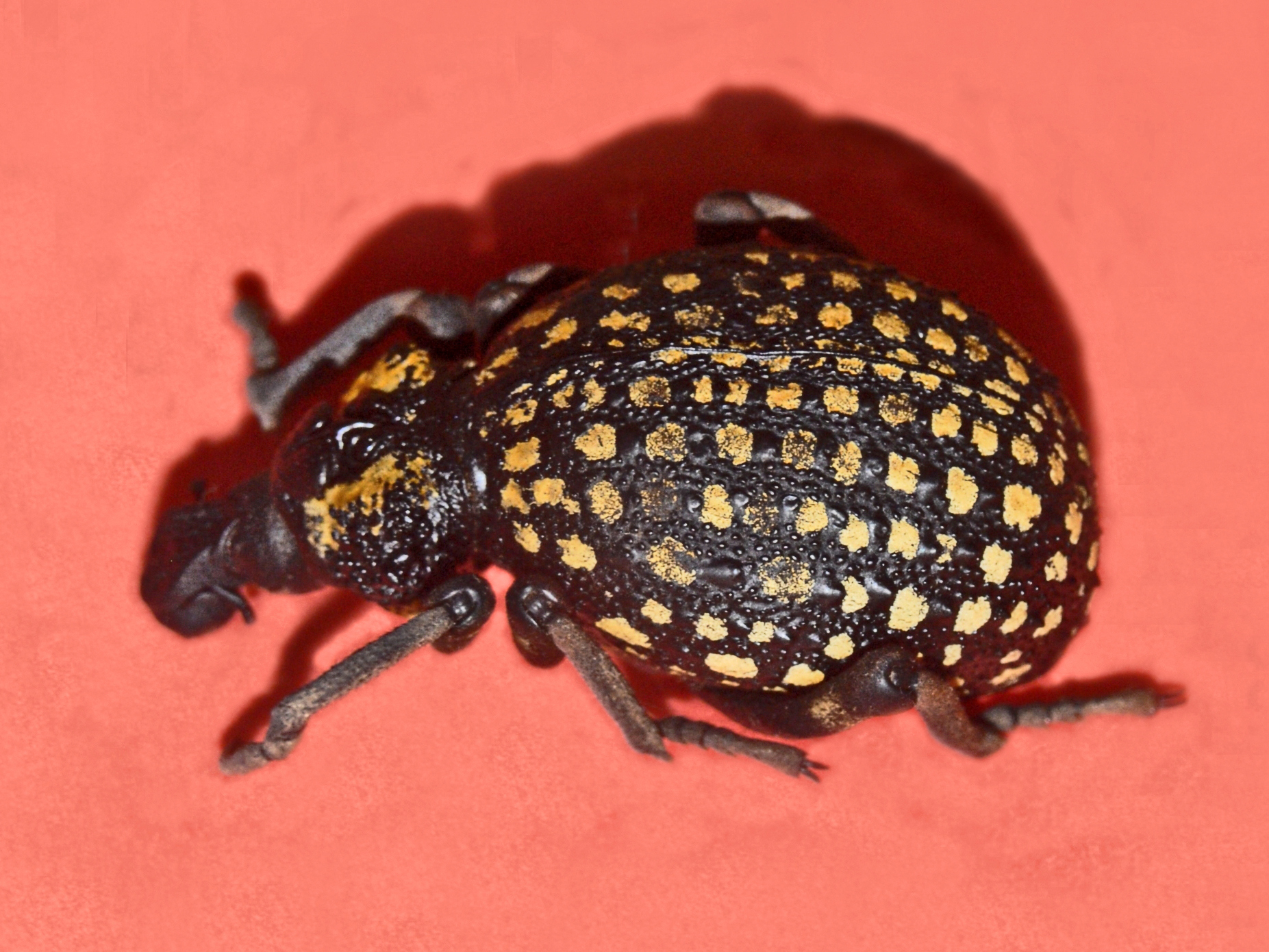 Museum specimen of Brachycerus bufo. On display at the Museo Civico di Storia Naturale di Milano